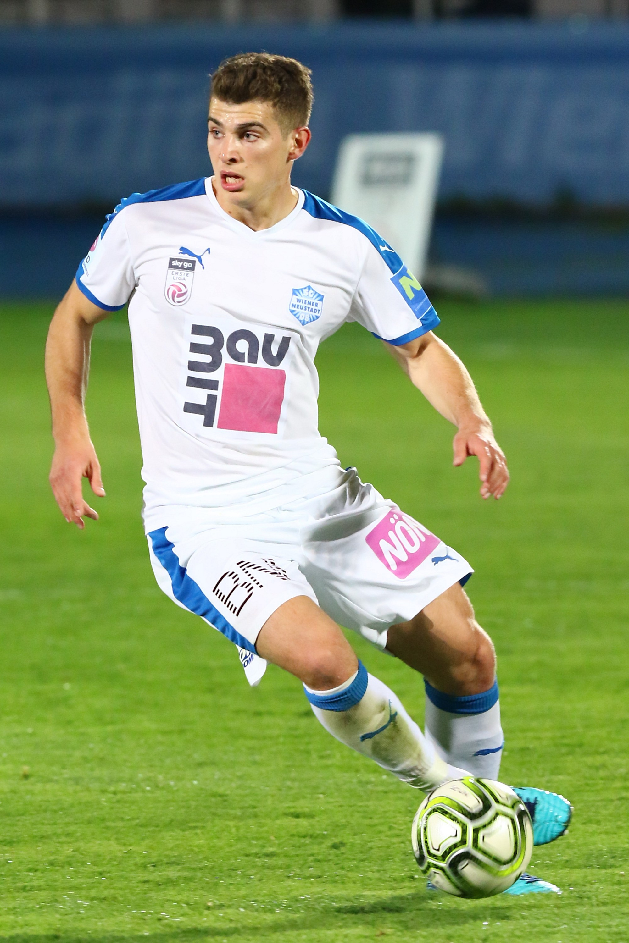 Football-championship Erste Liga 2017–18 - SC Wiener Neustadt (white shirts) vs. SV Ried (red shirts) 1-0. – The photo shows Ivan Ljubic